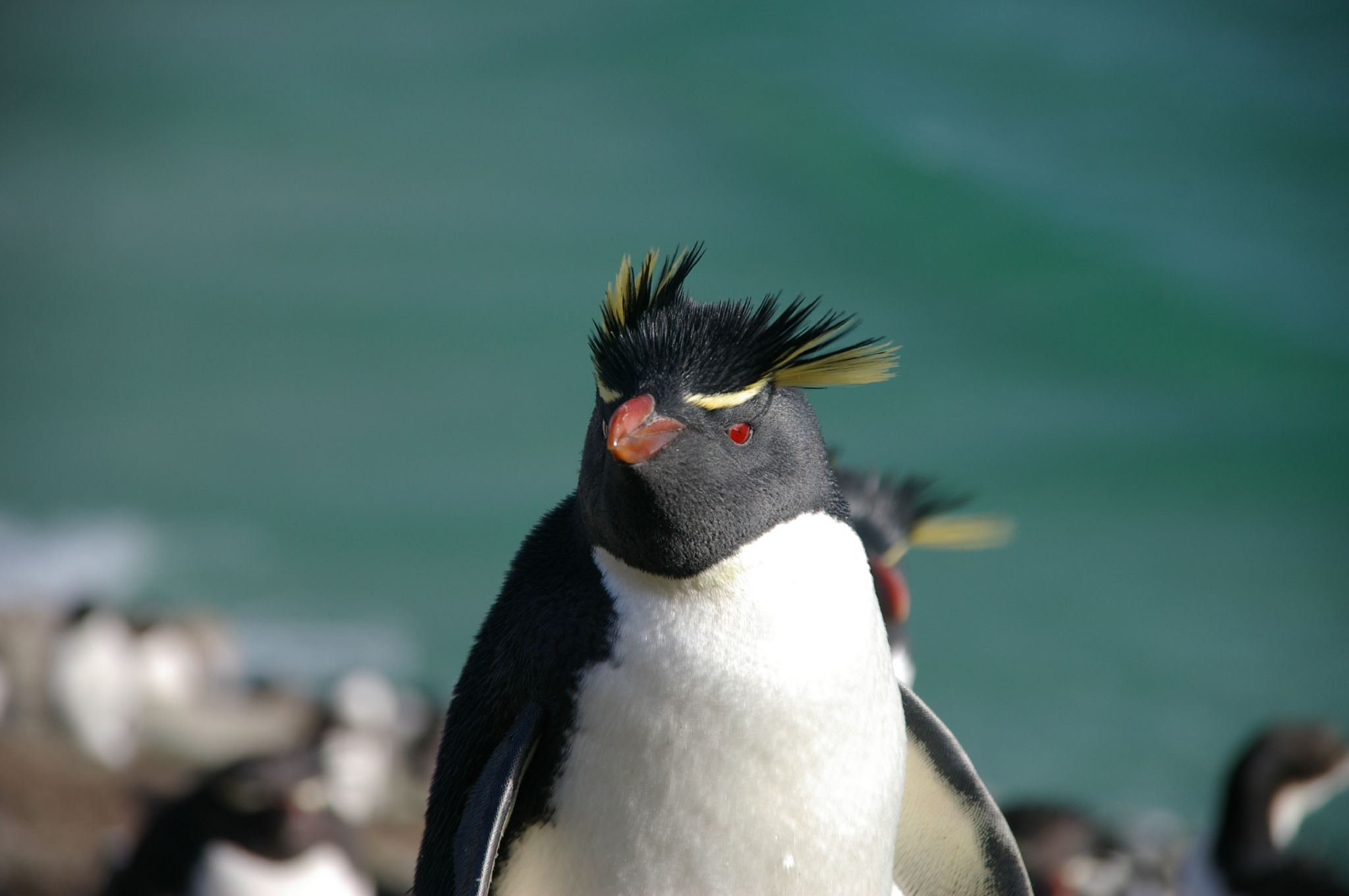 (Southern) Rockhopper Penguin (Eudyptes chrysocome), Saunders Island, Falkland Islands